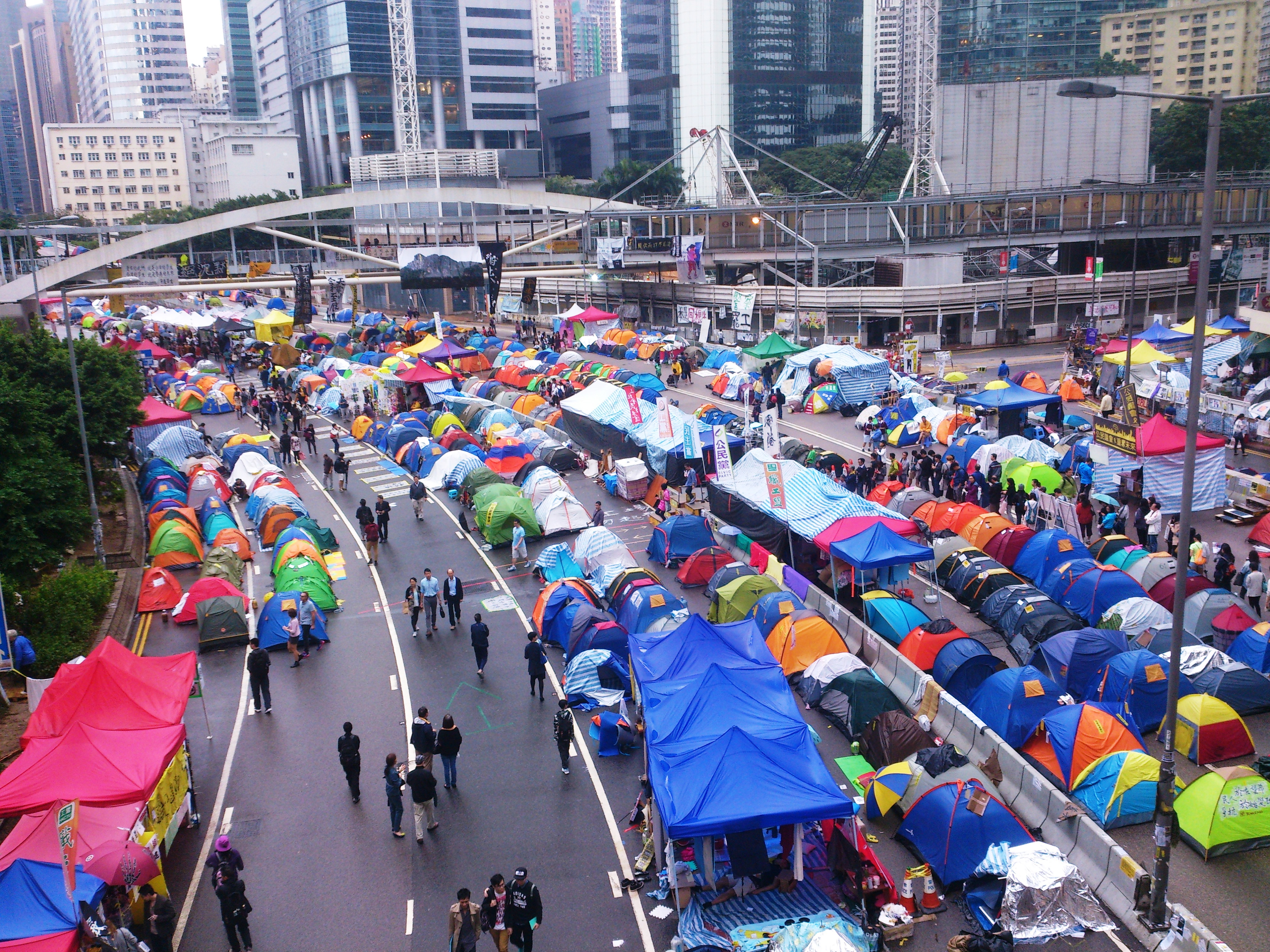 Tents on Harcourt Road outside Admiralty Centre on 2014-11-08 (3)